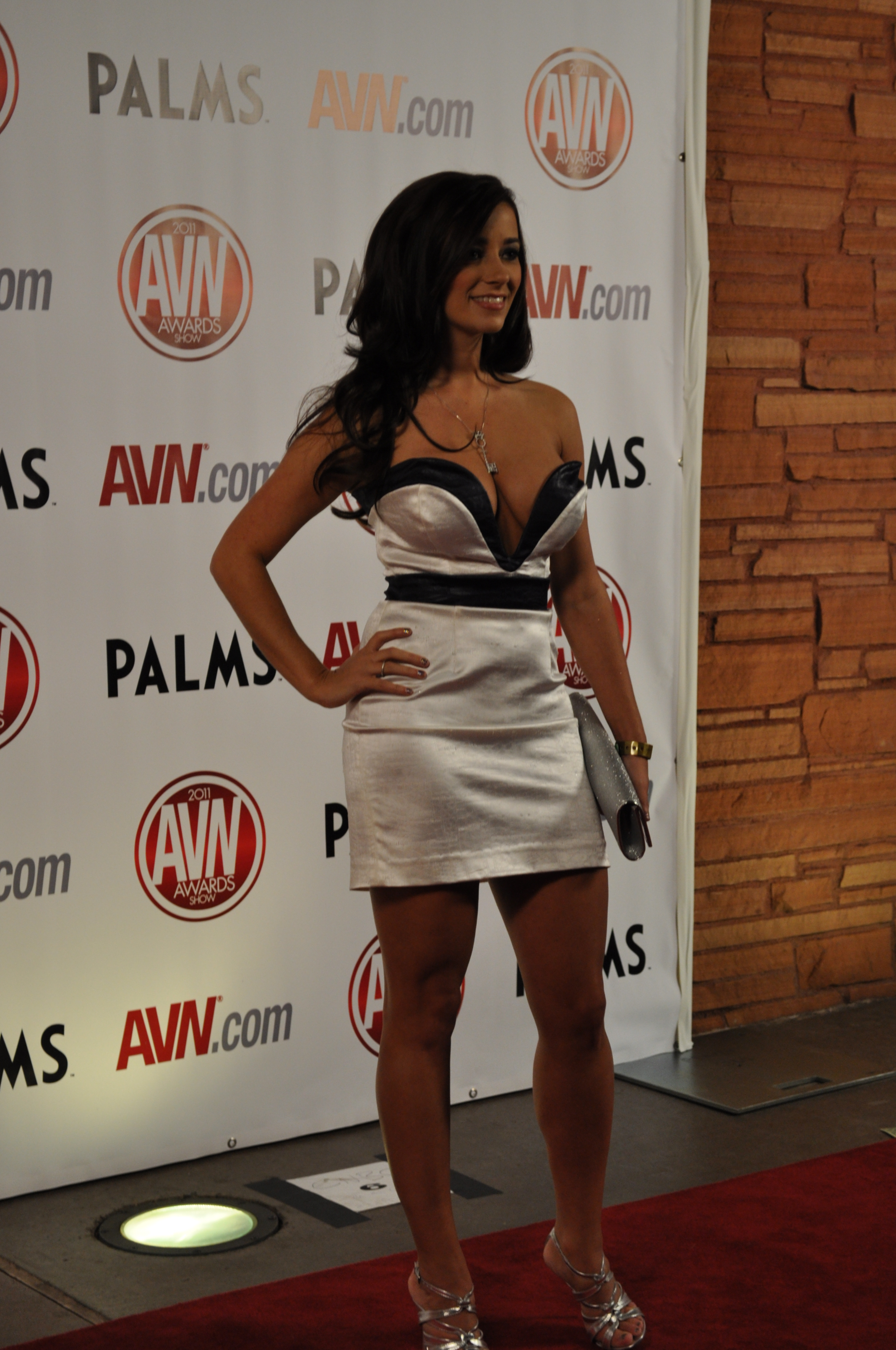 Taylor Vixen at AVN Awards 2011